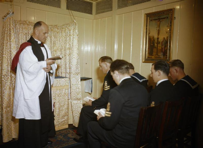 On Board the Cruiser HMS Cumberland, November 1942 A Royal Navy chaplain reading service on board HMS CUMBERLAND.